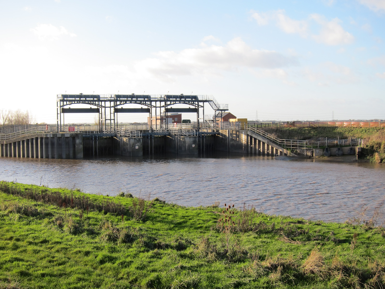 Welmore Lake sluice where the River Delph joins the New Bedford River in Norfolk, England